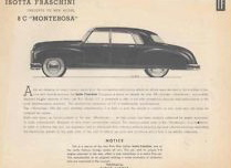 1949 Isotta Fraschini 8C Monterosa Streamline Brochure.